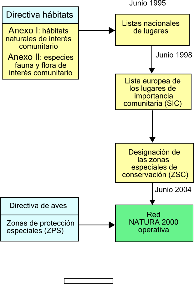 first estimated timeline for Natura 2000 Network